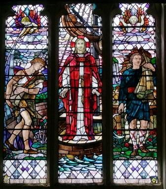 Stained Glass window by Veronica Whall in church in Ewhurst, Surrey